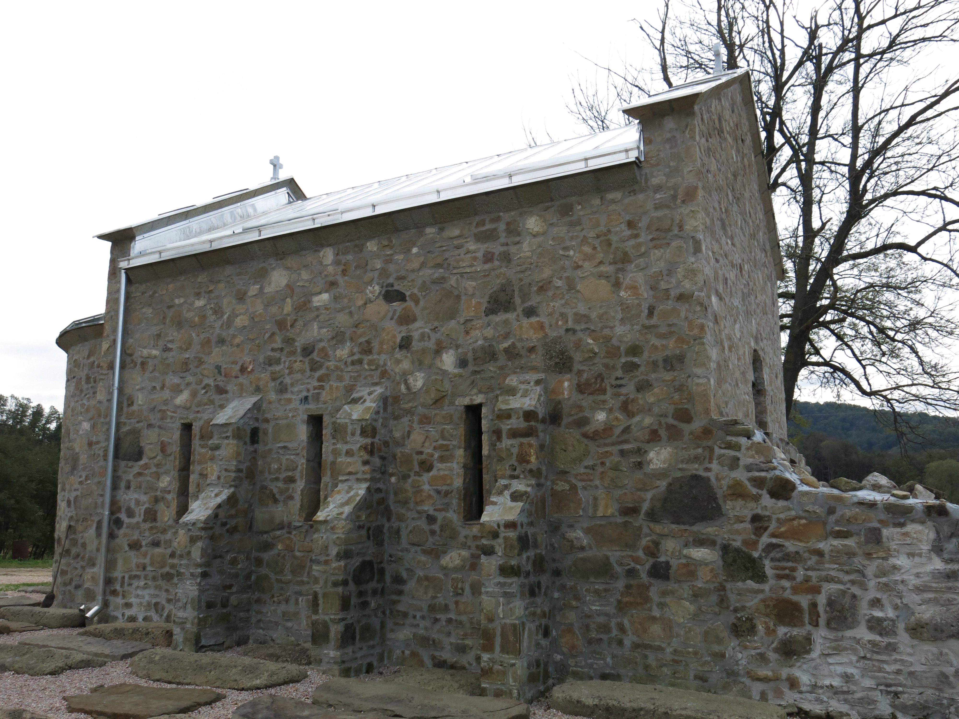 Dići, Church of Saint John the Baptist with necropolis